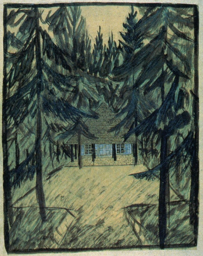 Painting by chapel's architect Gunnar Asplund. Courtyard and chapel forecourt, Skogskapellet, Sweden.